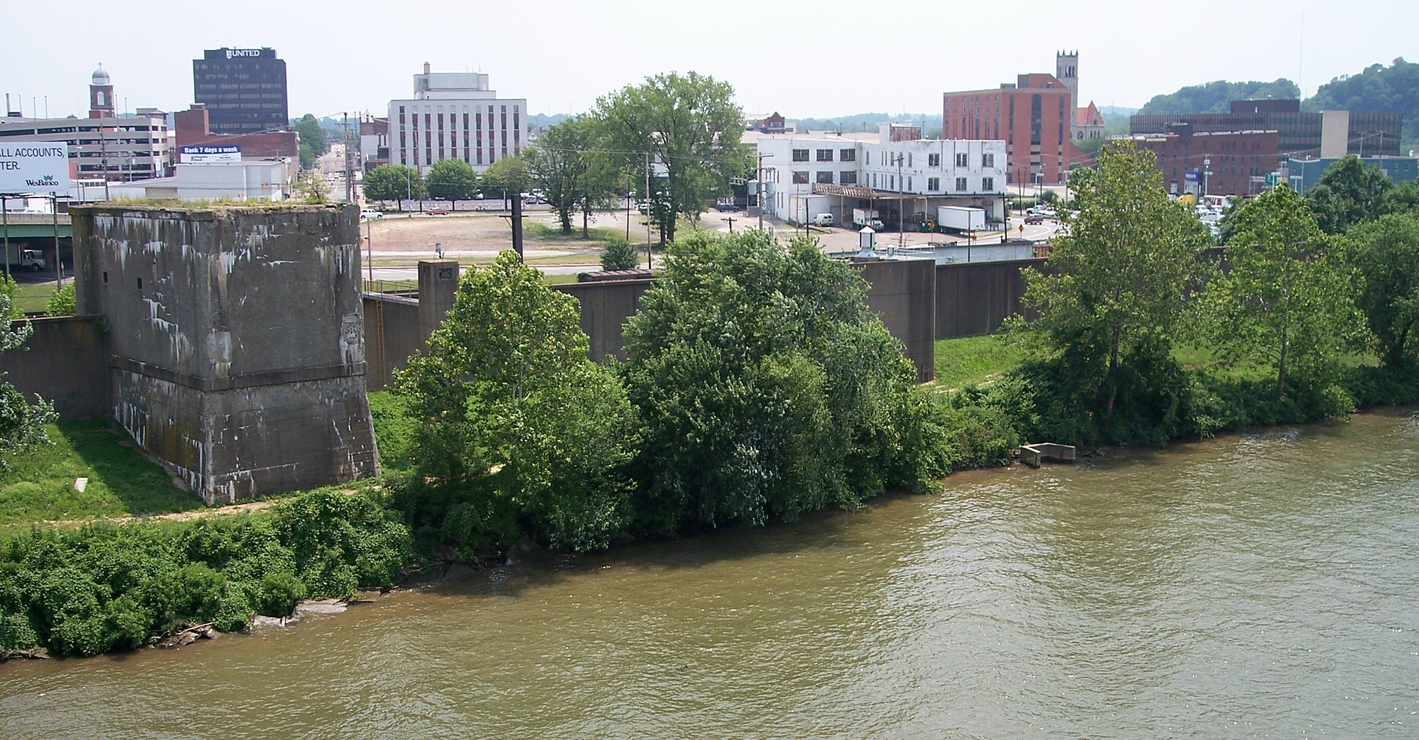 Downtown Parkersburg, West Virginia along the Ohio River, as viewed from the Belpre-Parkersburg Bridge